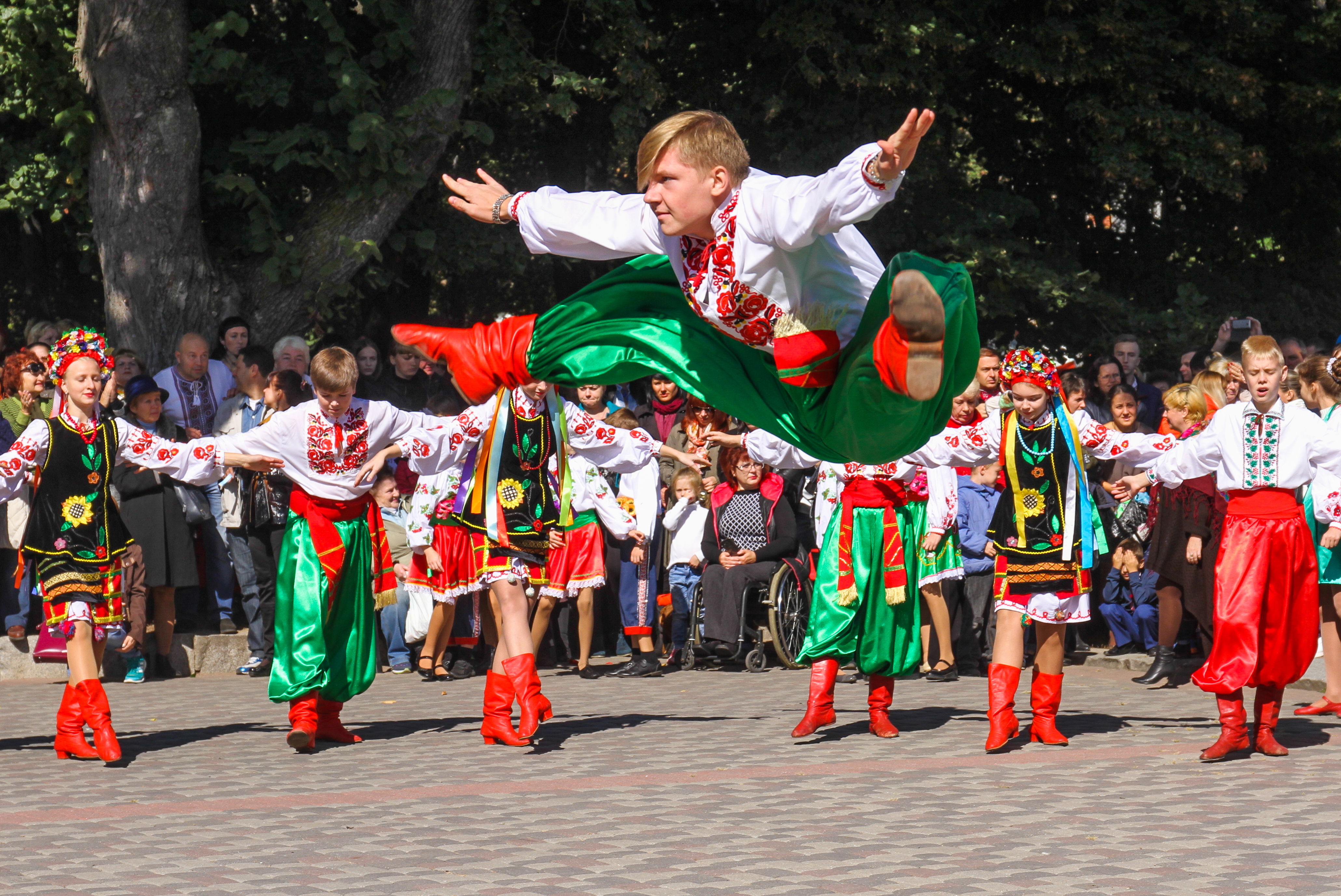 Ukrainian National dancer performed the jump during the parade Ukrainian shirts (Vyshyvanka) September 24, 2016 in Poltava, Ukraine